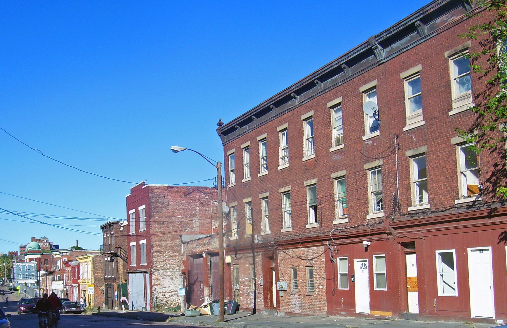 William Street in Newburgh, NY, USA, part of the East End Historic District